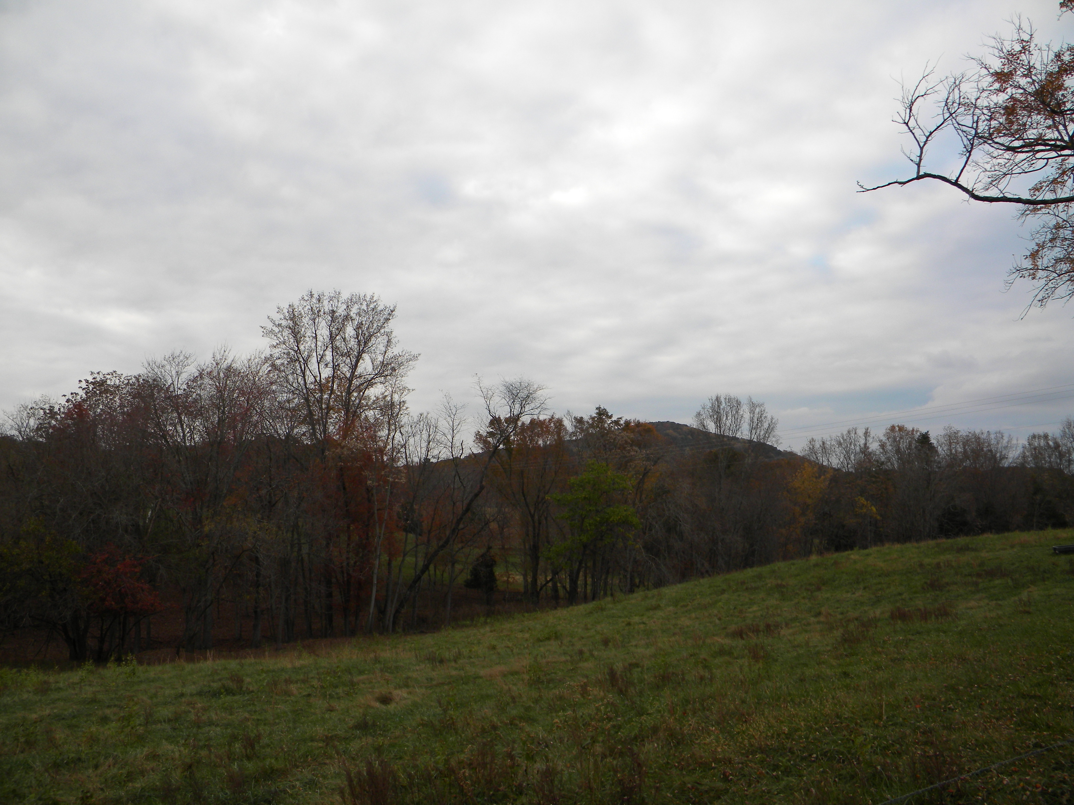 eastern side of Battle Mountain from approximately 1km from the base